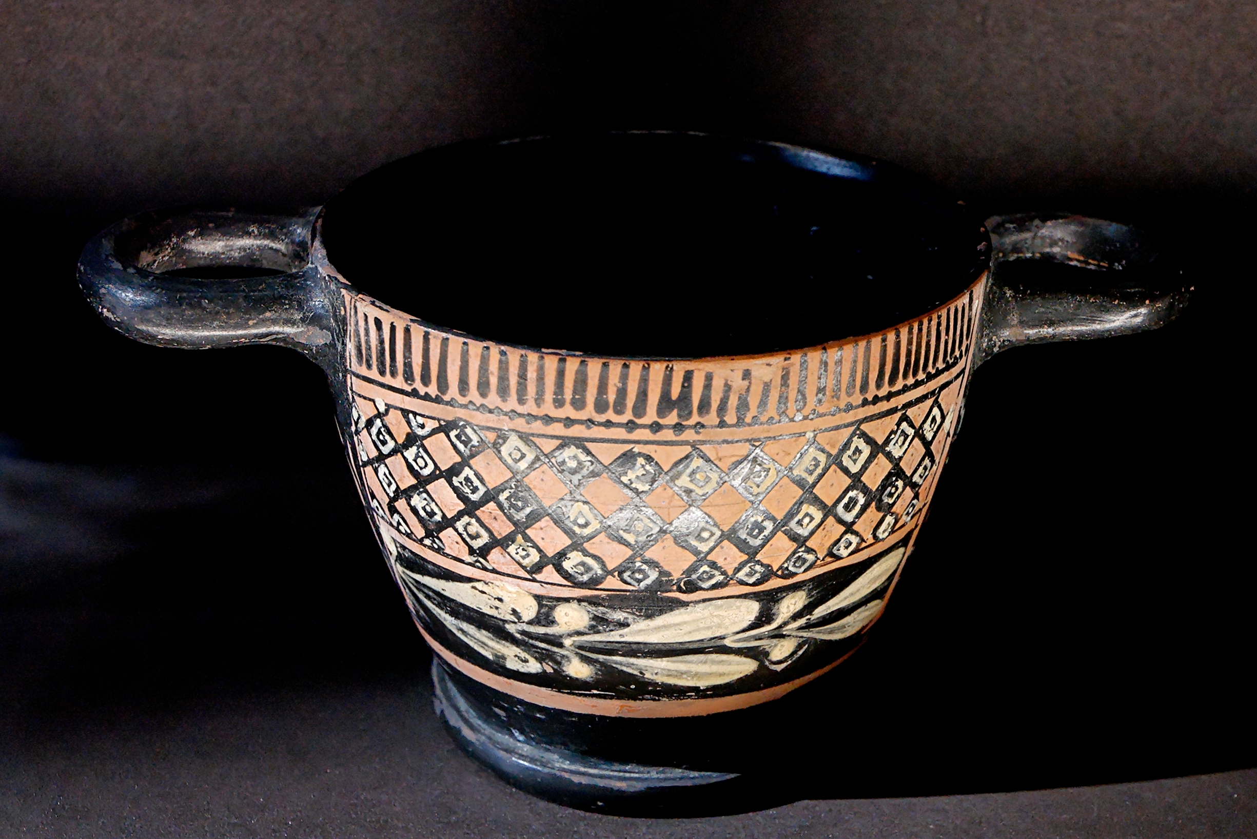 Attic skyphos of the “Saint-Valentine” type, ca. 450–400 BC.